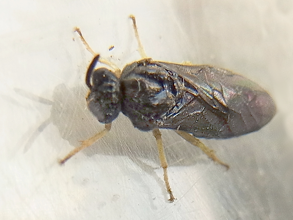 Aproceros leucopoda from Southern Hungary near in elm-forest at 2012-05-30